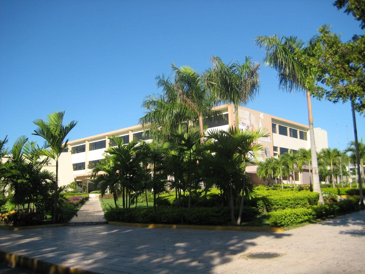 A building of the Autonomous University of Santo Domingo, in Santo Domingo, Dominican Republic.